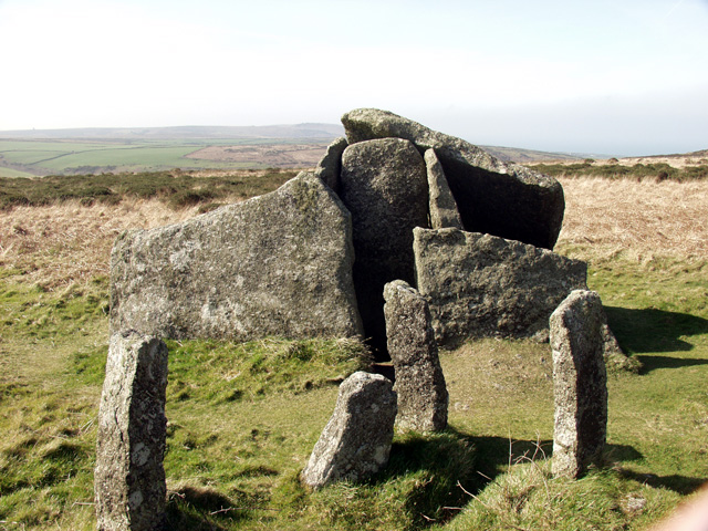 Zennor Quoit. Neolithic burial chamber, at the very south east of the grid square. Looking toward the west, with the Atlantic shown top right of the photo.